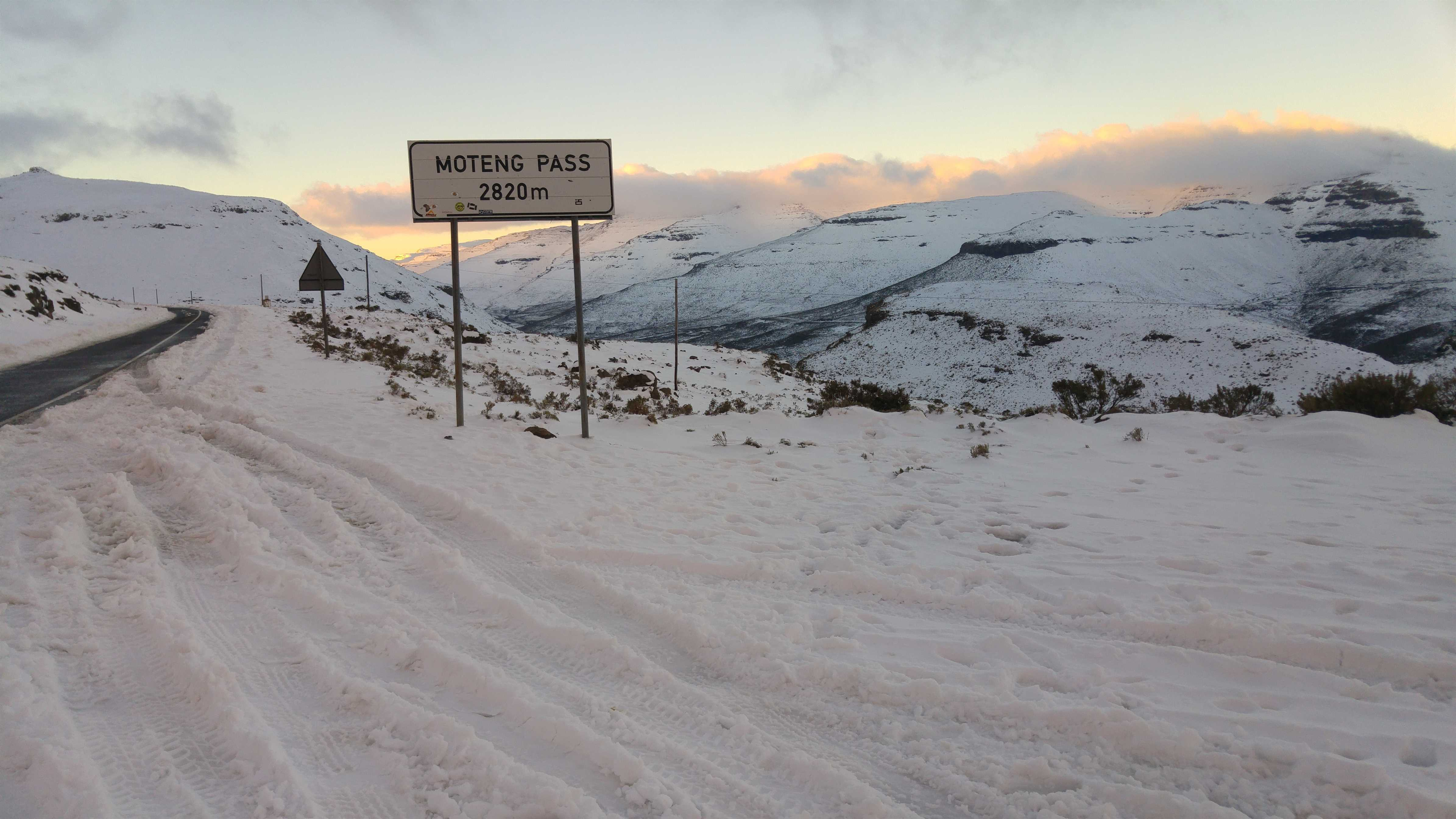 Moteng Pass 1